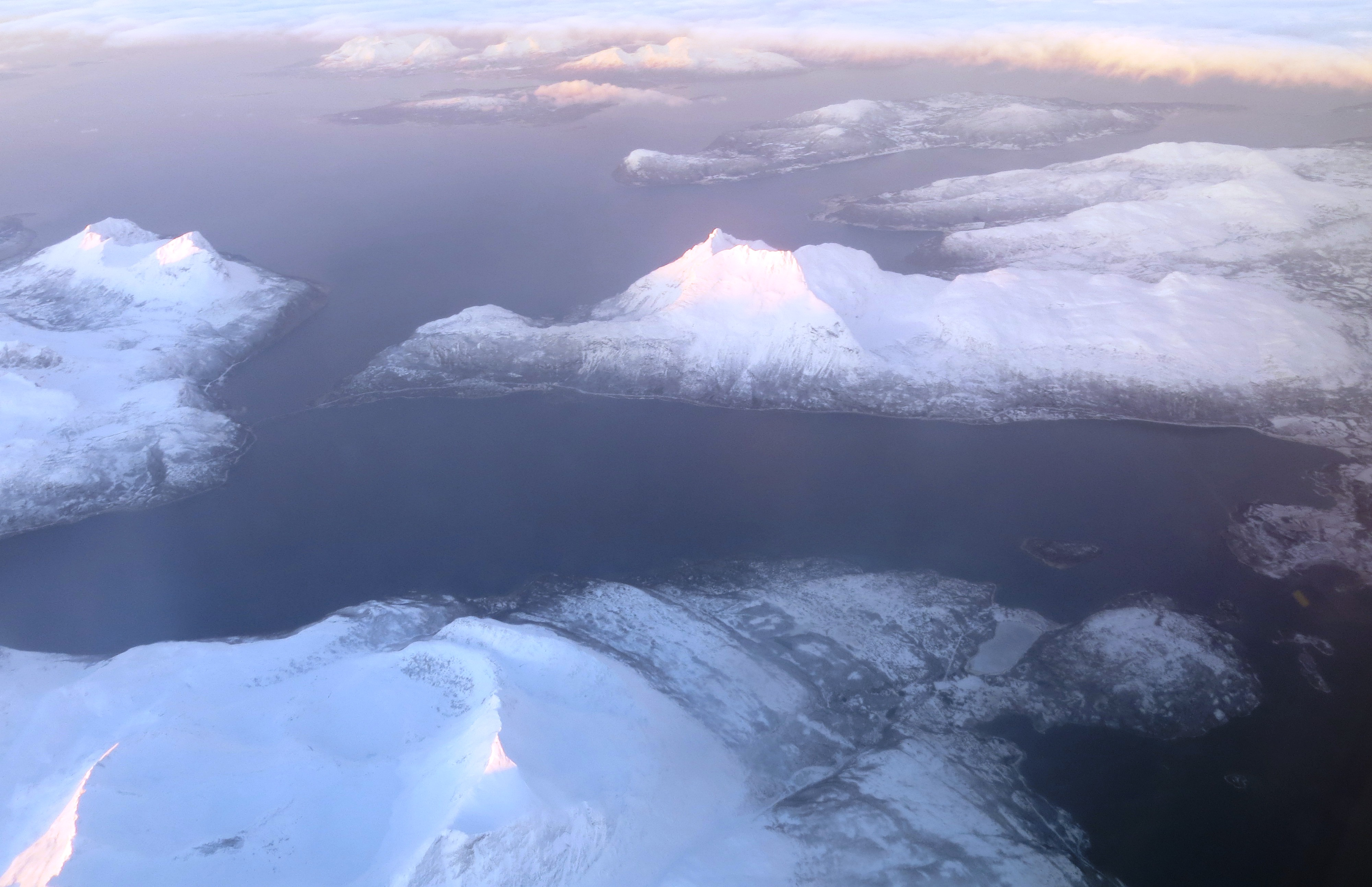 Aerial view towards west, over the municipality of Salangen - Troms County, Norway